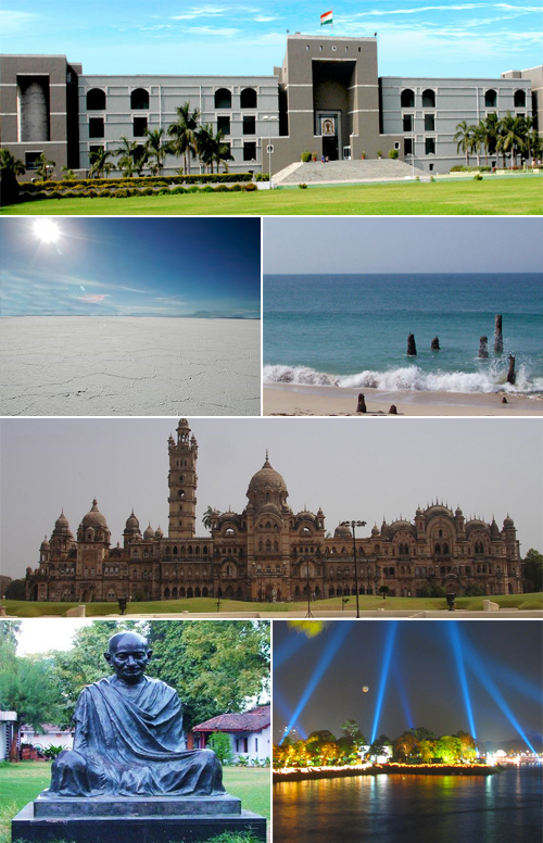 Gujarat Montage: Clockwise from top: High Court of Gujarat (File:Gujarat-High-Court.jpg, public domain), Dwarka Beach, Laxmi Vilas Palace (File:Baroda_Lvp.JPG, ATTRIBUTION MISSING), Kankaria Lakefront, Gandhi Ashram, Salt Desert of Kutch